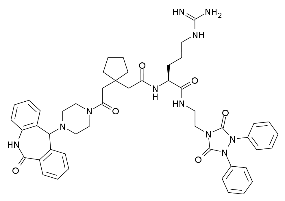 i drew this anyone can use it